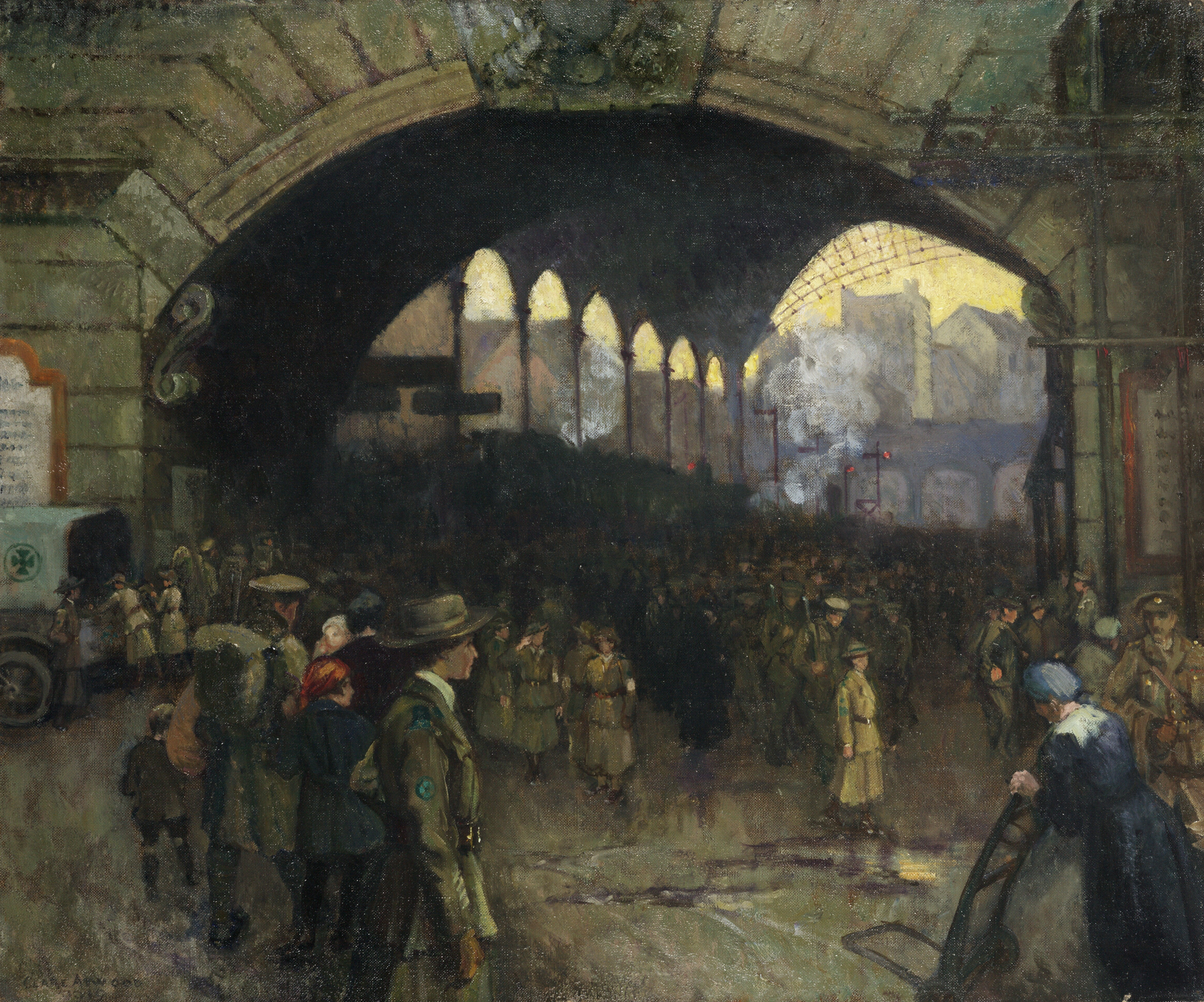 Victoria Station 1918 - the Green Cross Corps (women's Reserve Ambulance) guiding soldiers on leave image: A view inside the large arched entrance to Victoria station, with groups of British soldiers being guided by women of the Women's Reserve Ambulance Corps, who are also wearing khaki uniforms. The rear of a truck bearing the Green Cross symbol is visible to the left. Two plumes of steam, presumably emitted by trains, can be seen within the arch.